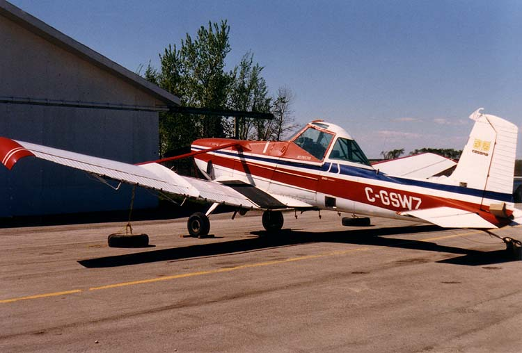 I took this photo of Cessna A188B AGtruck C-GSWZ at Steinbach Manitoba on 22 May 1988